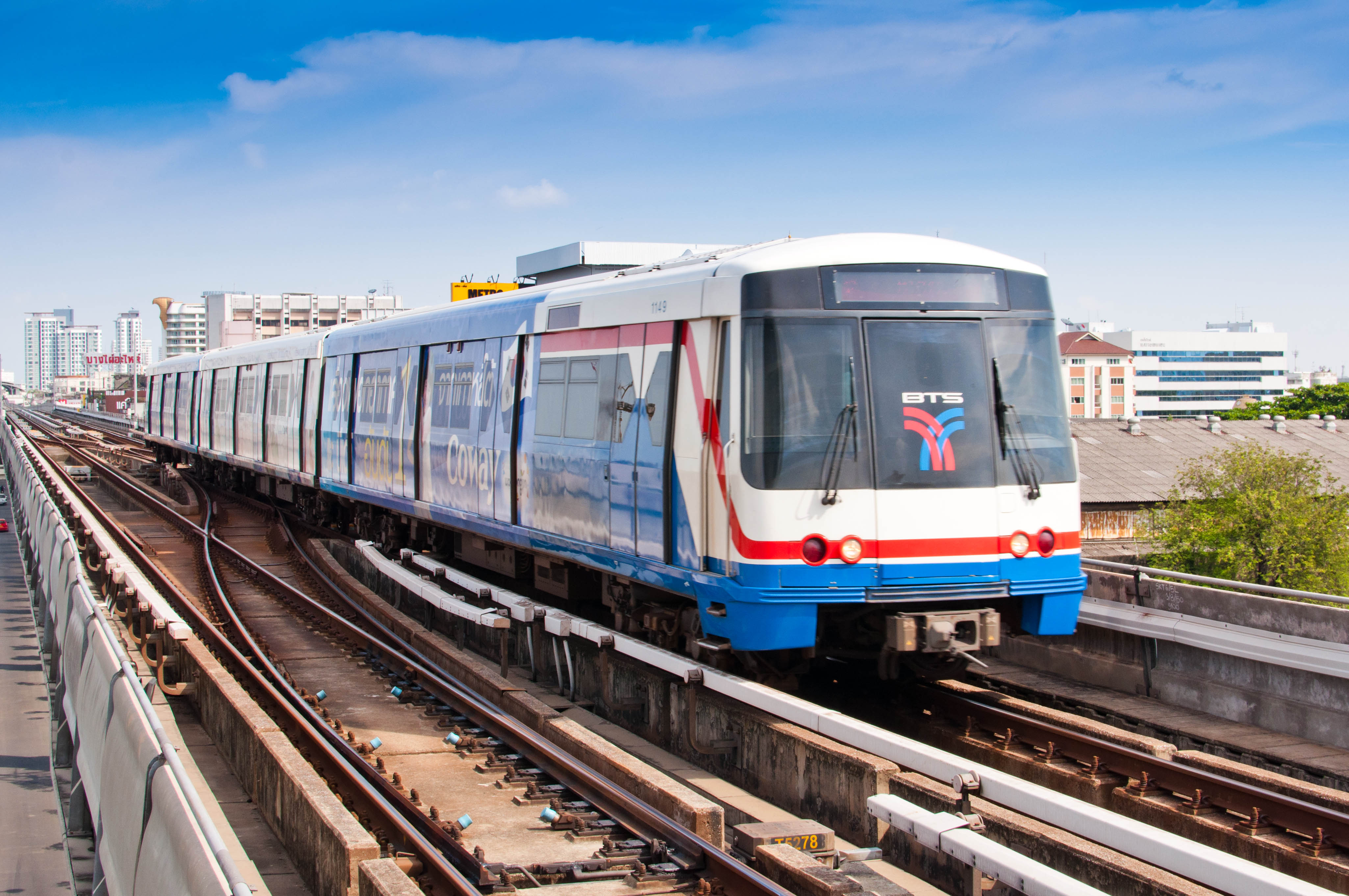 A BTS SkyTrain enters the On Nut station on the Sukhumvit Line.